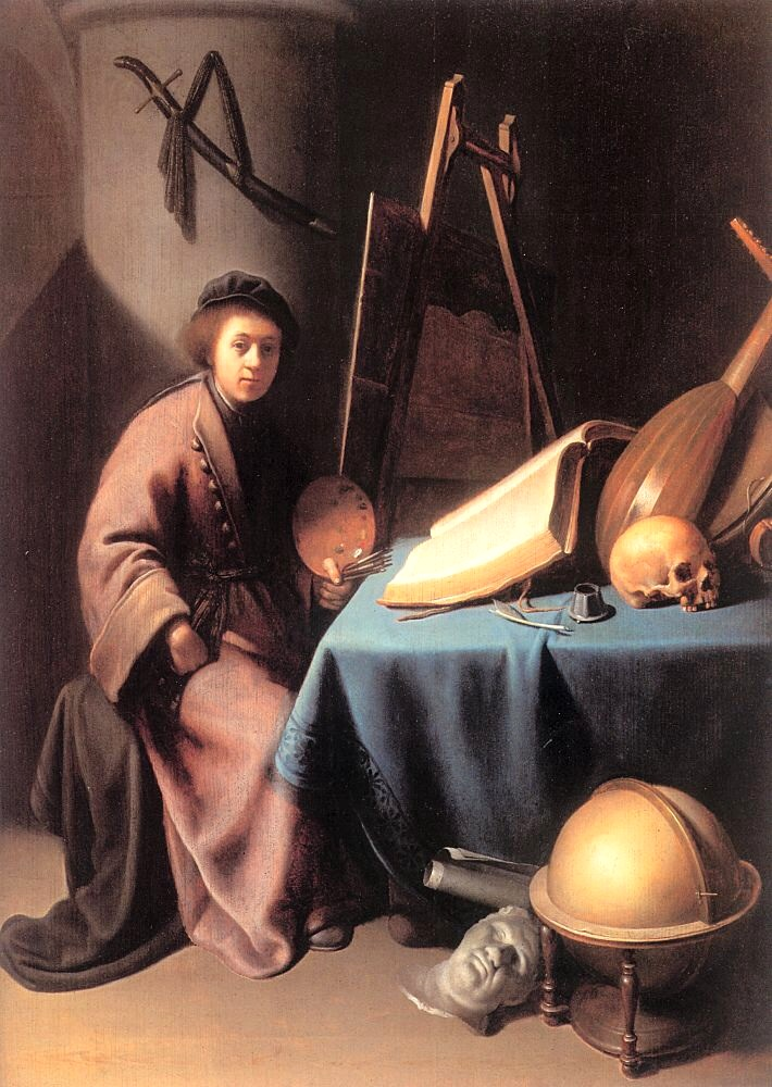 Selfportrait